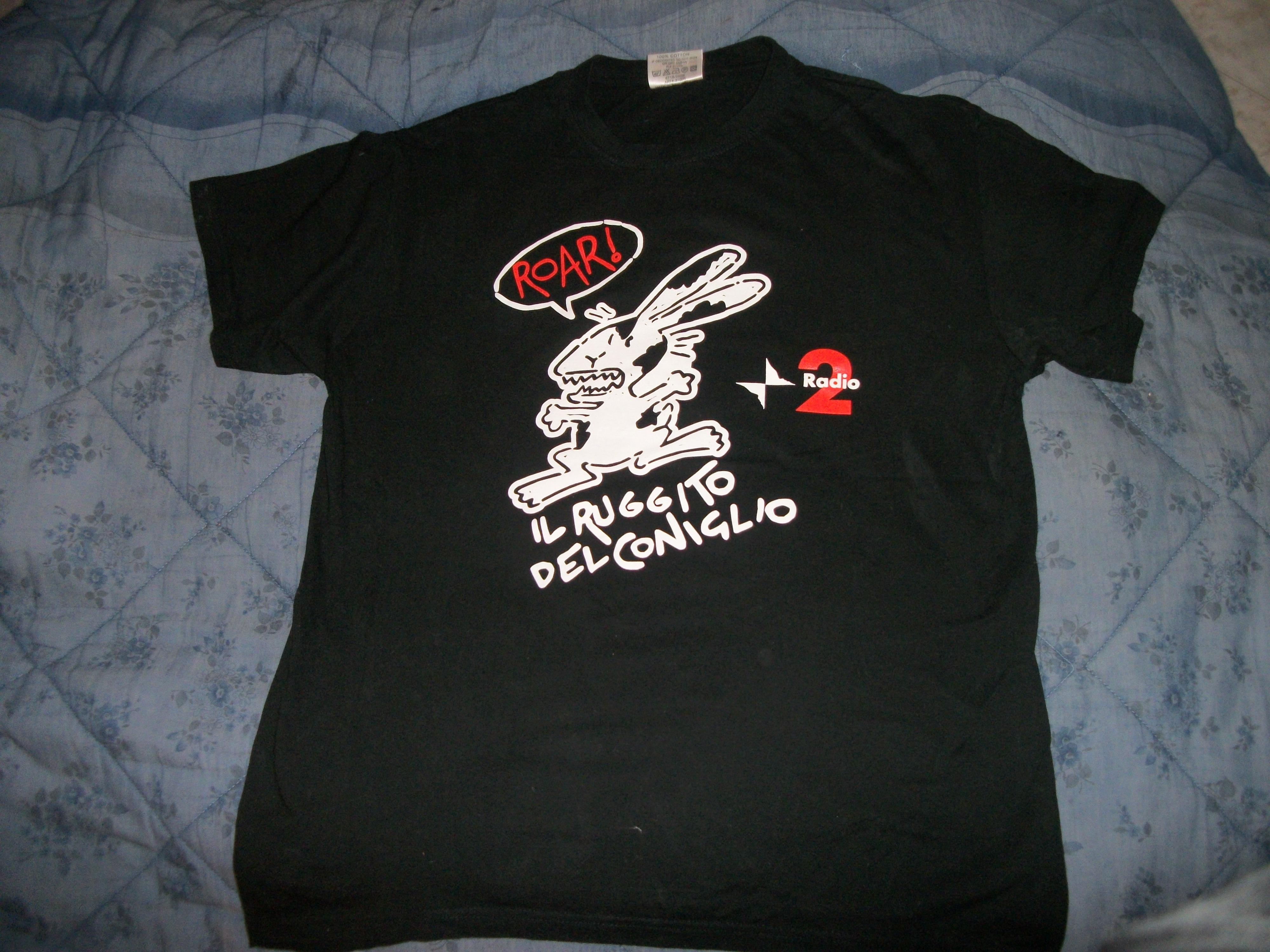 Il Ruggito del coniglio T shirt